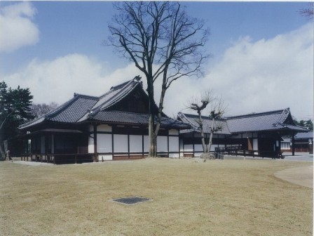 Residence of Kannin-no-miya, royal families of Japan, is in Kyoto-Gyoen